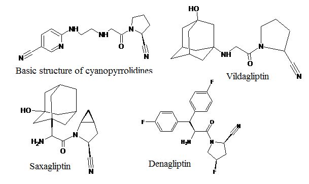 The basic structure of cyanopyrrolidine. The structure of vildagliptin, saxagliptin and denagliptin